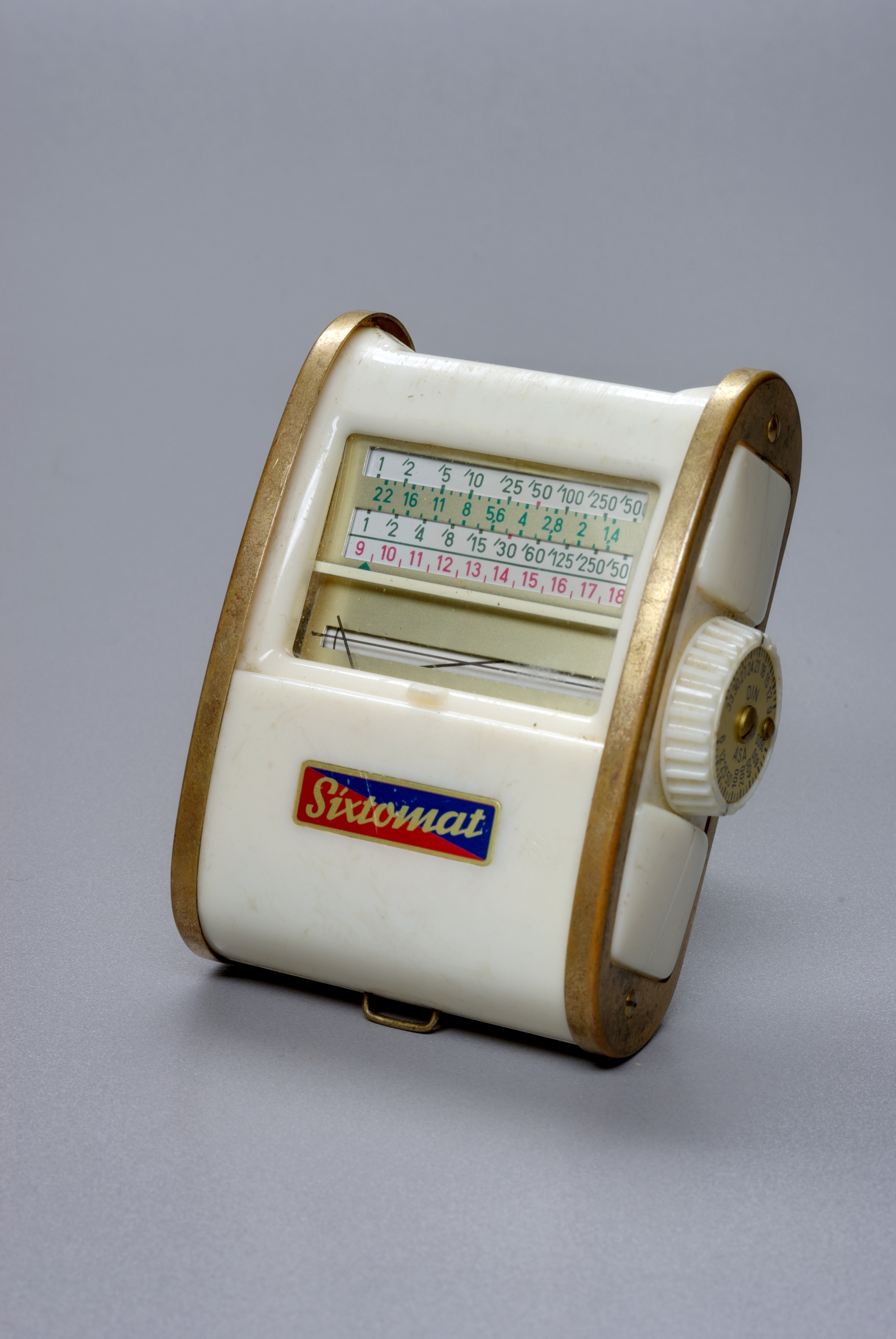 Light meter Sixtomat